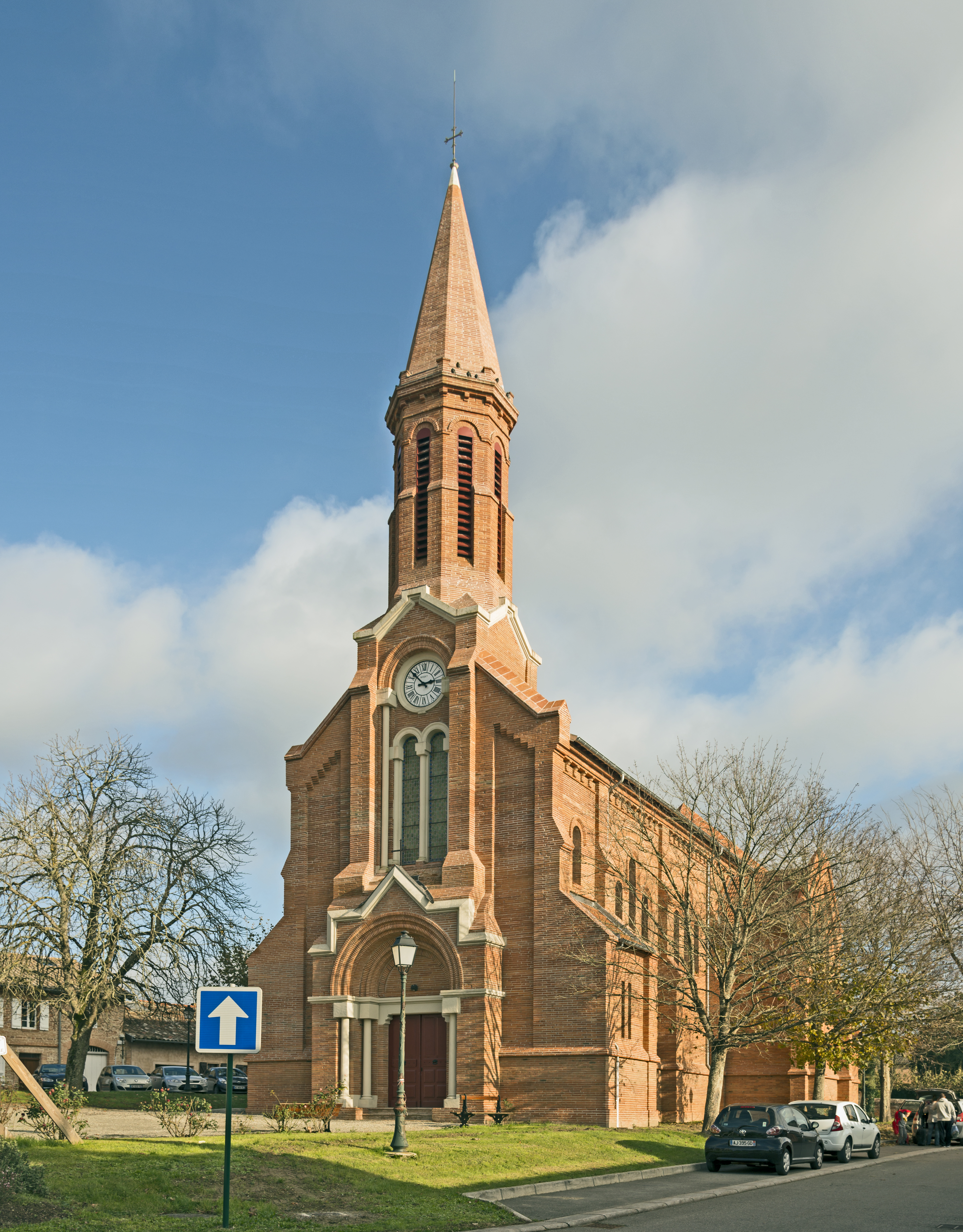 Gargas, Haute-Garonne, France. Church "Saint Pierre".